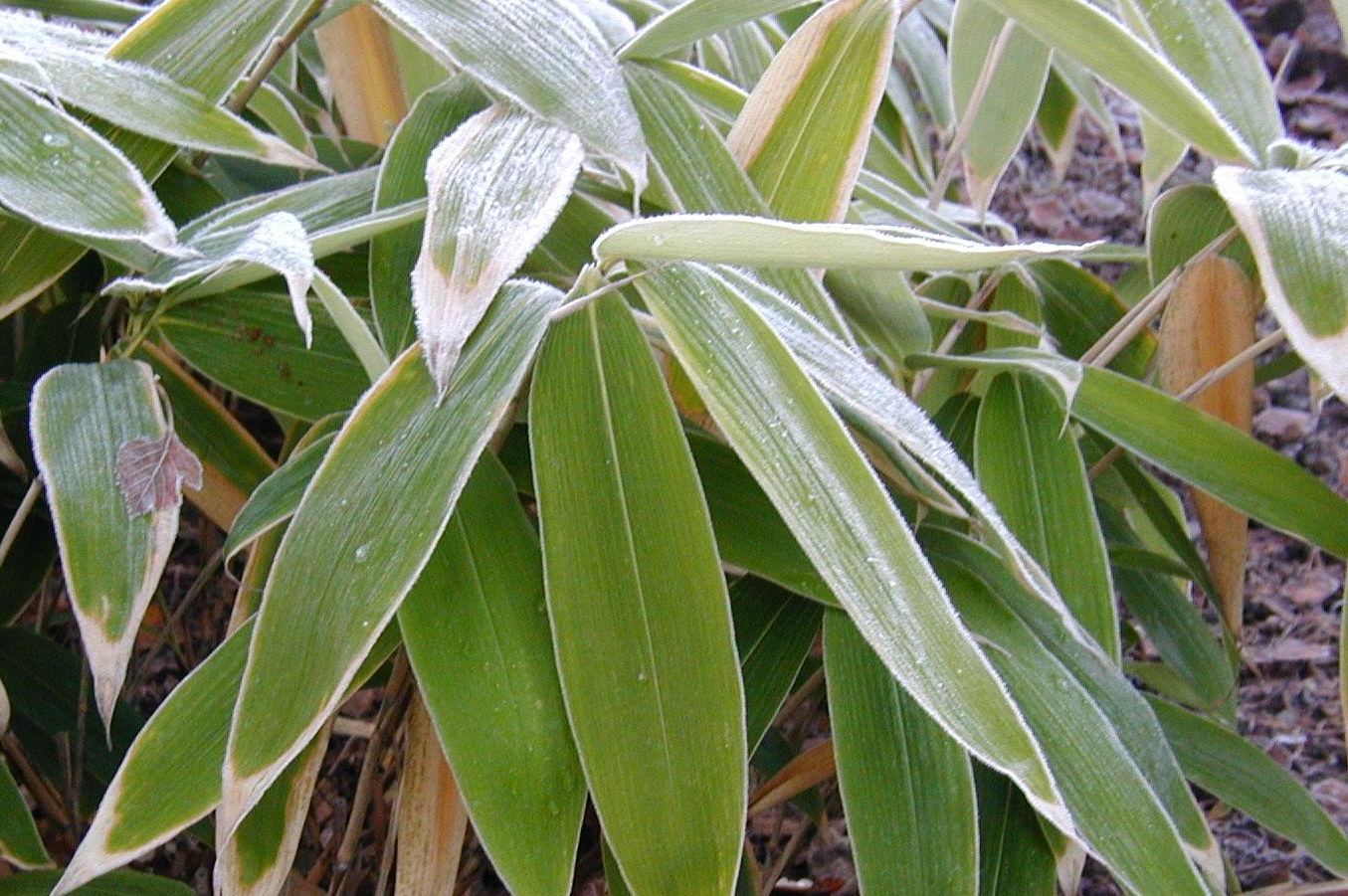 Sasa palmata: Winterpicture.